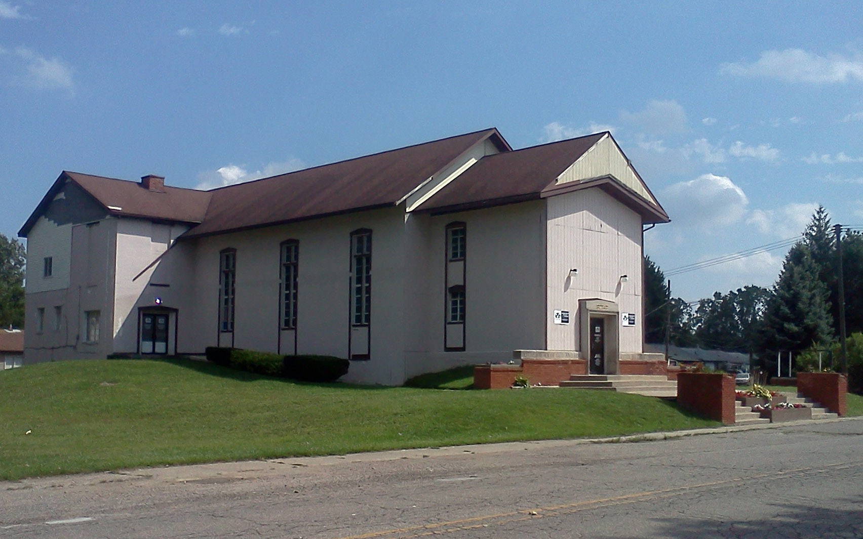 Church in Norwayne Historic District, Westland MI